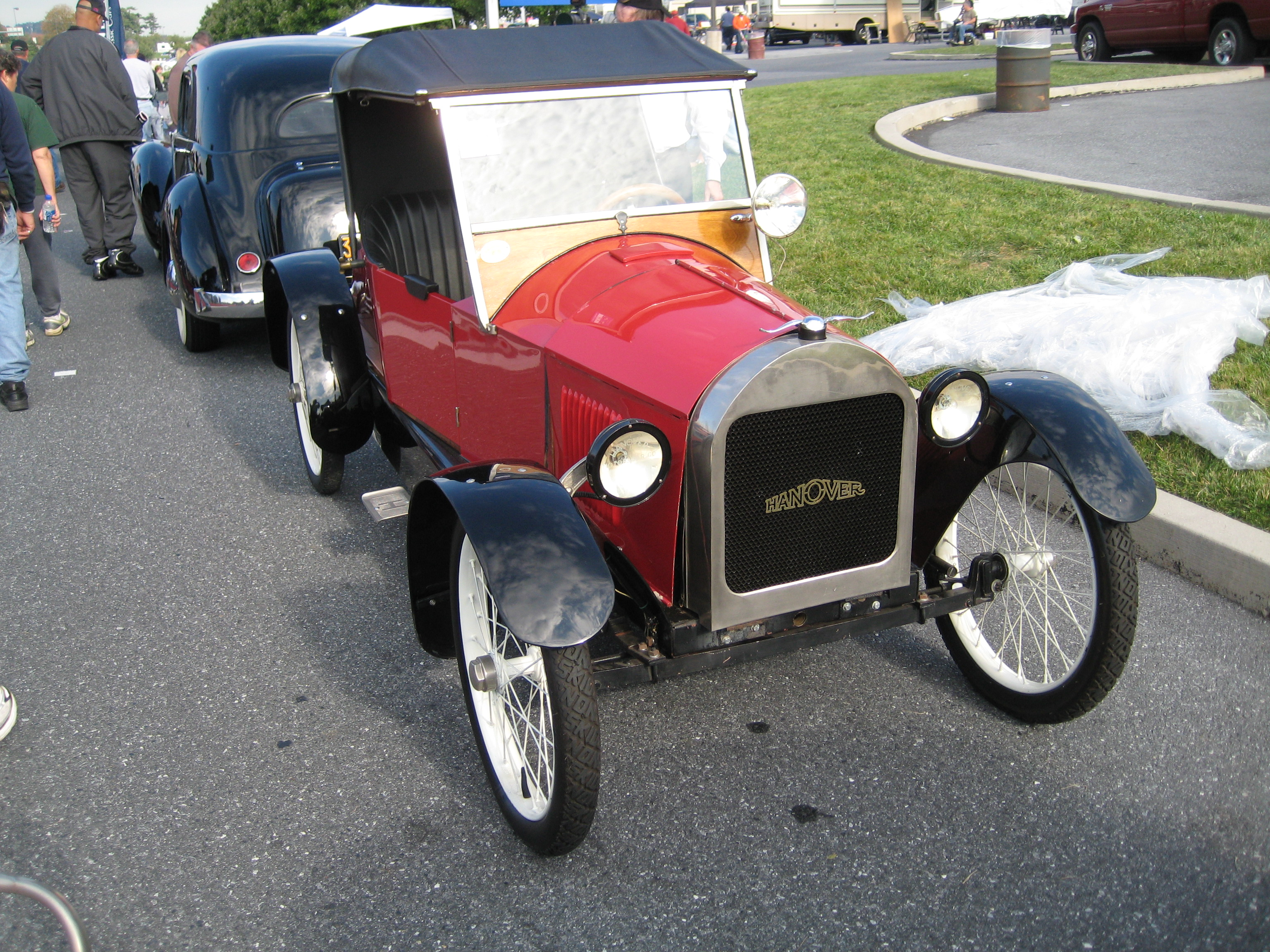 Must be a rough ride with no suspension! Hanover, Pennsylvania, 1921 to 1927. Seen at the for sale "Car Corral", AACA Eastern Region Fall Meet, Hershey, Pennsylvania, October 2009